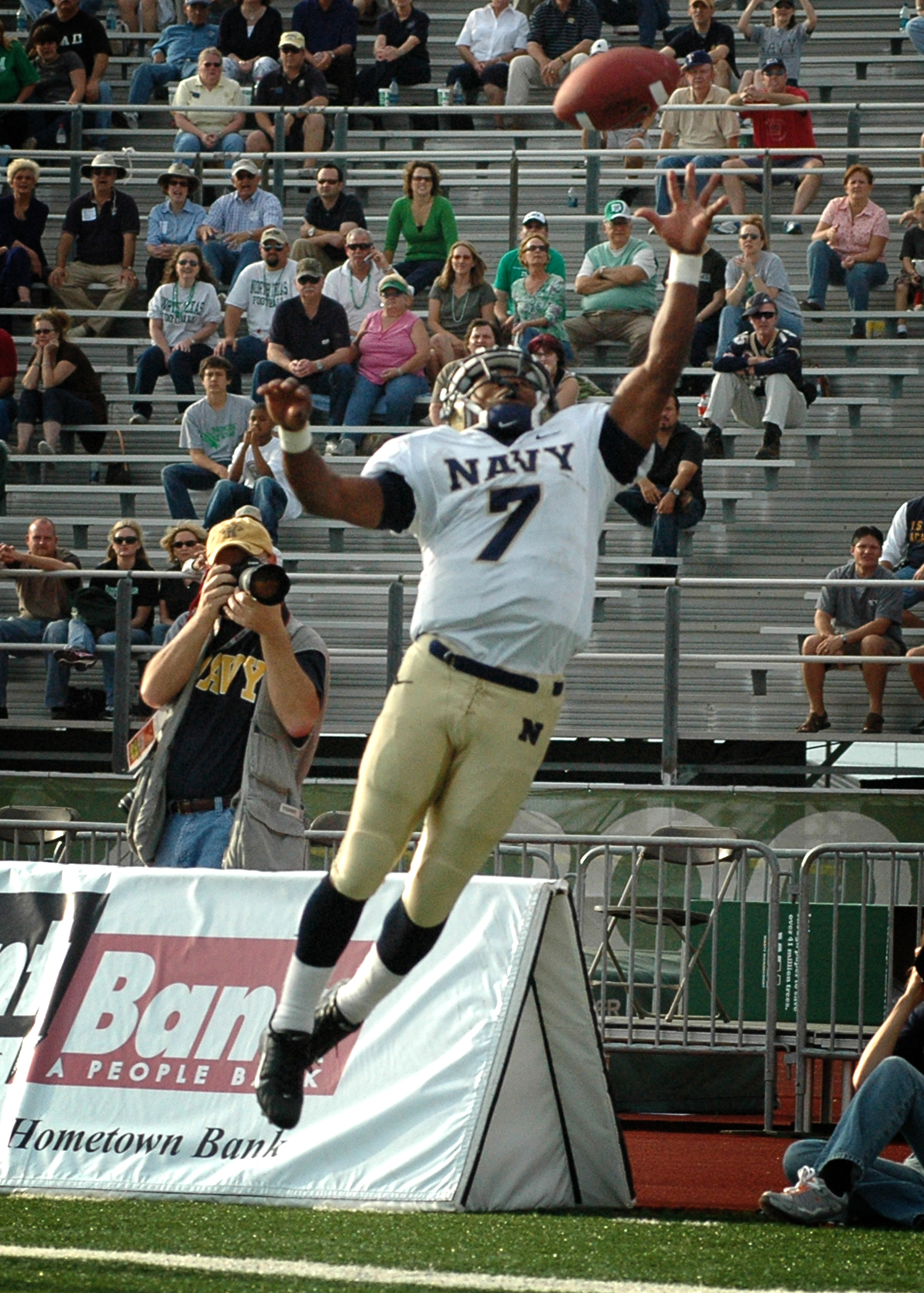 DENTON, Texas (Nov. 10, 2007) Navy Midshipmen running back, Reggie Campbell, reaches for a pass during the during the Navy vs. University of North Texas (UNT) football game. The games final score was Navy 74 - UNT 62. The 136 points scored between Navy and North Texas sets a NCAA record for most points scored in a regulation game since the NCAA started tracking the record in 1937. The 63 combined points scored in the second quarter was also a NCAA record for points in a quarter. U.S. Navy photo by Mass Communication Specialist 2nd Class D. Keith Simmons (Released)